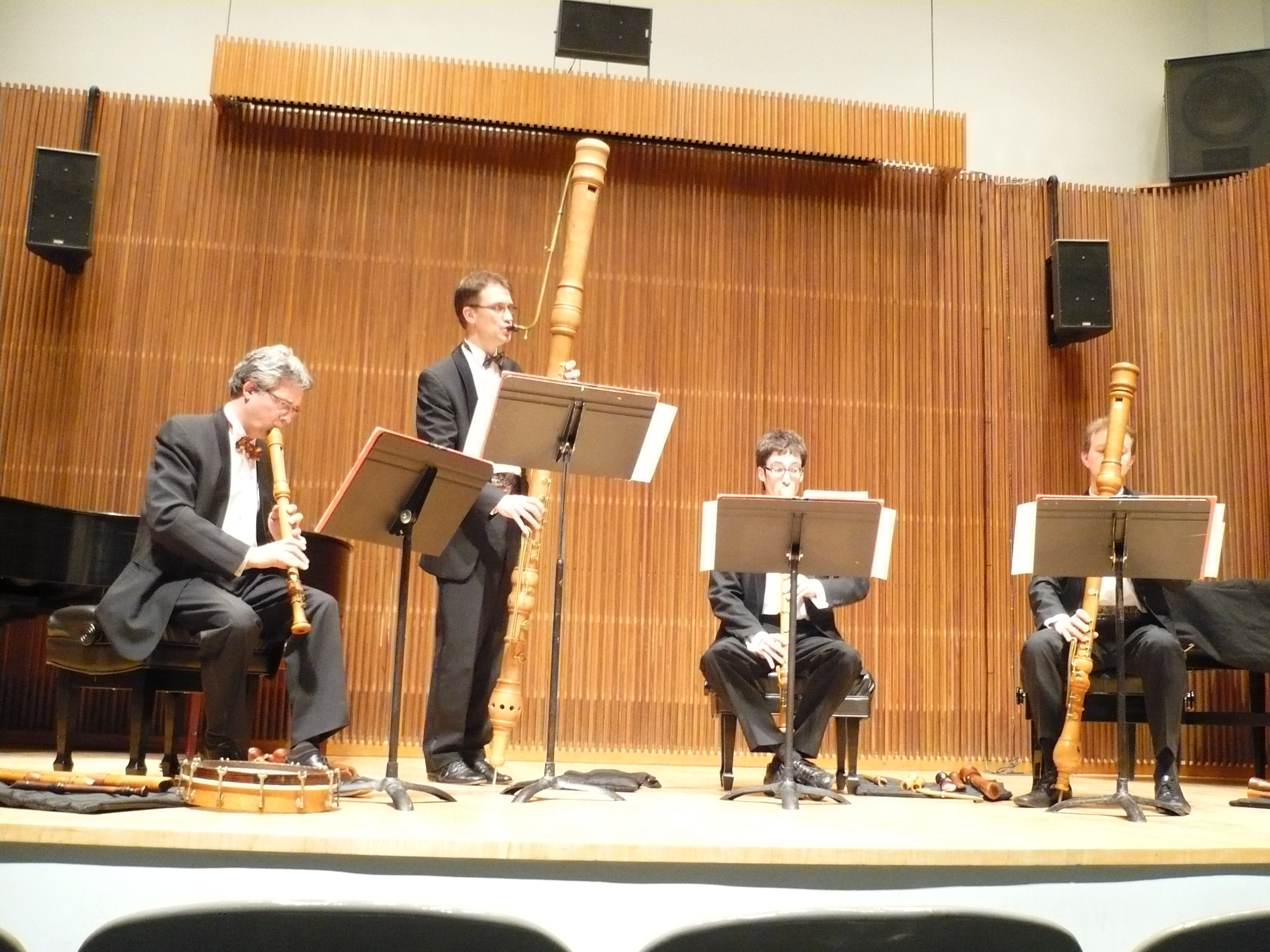 The Flanders Recorder Quartet. From left to right: Paul Van Loey, Bart Spanhove, Tom Beets, and Joris Van Goethem. Photo taken at a concert in Kulas Recital Hall, Oberlin Conservatory of Music, Oberlin, Ohio, United States.